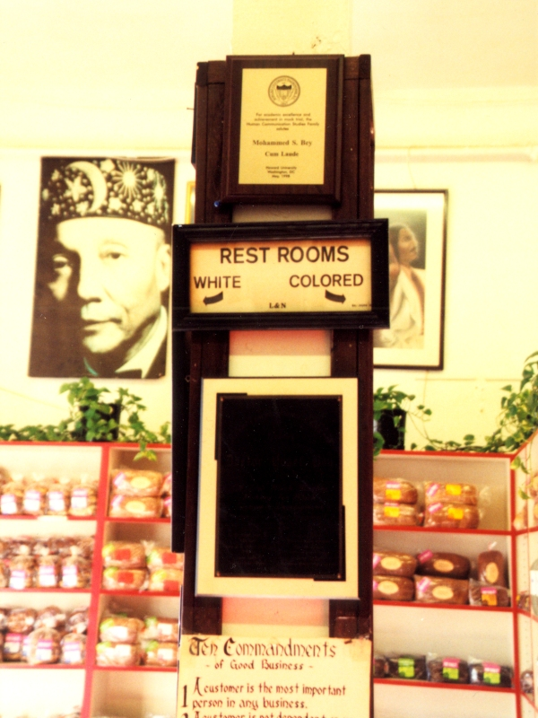 Interior of Your Black Muslim Bakery #1, formerly on San Pablo Avenue in Oakland, California. The plaque on top awards cum laude status to Mohammed S. Bey from Howard University; the framed item below it is a reproduction of a Jim Crow sign from the South.